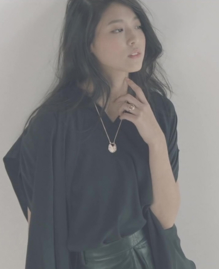 (Marie Claire Korea) Blooming Days